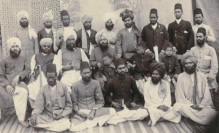 Mirza Ghulam Ahmad (seated centre) with some of his companions at Qadian